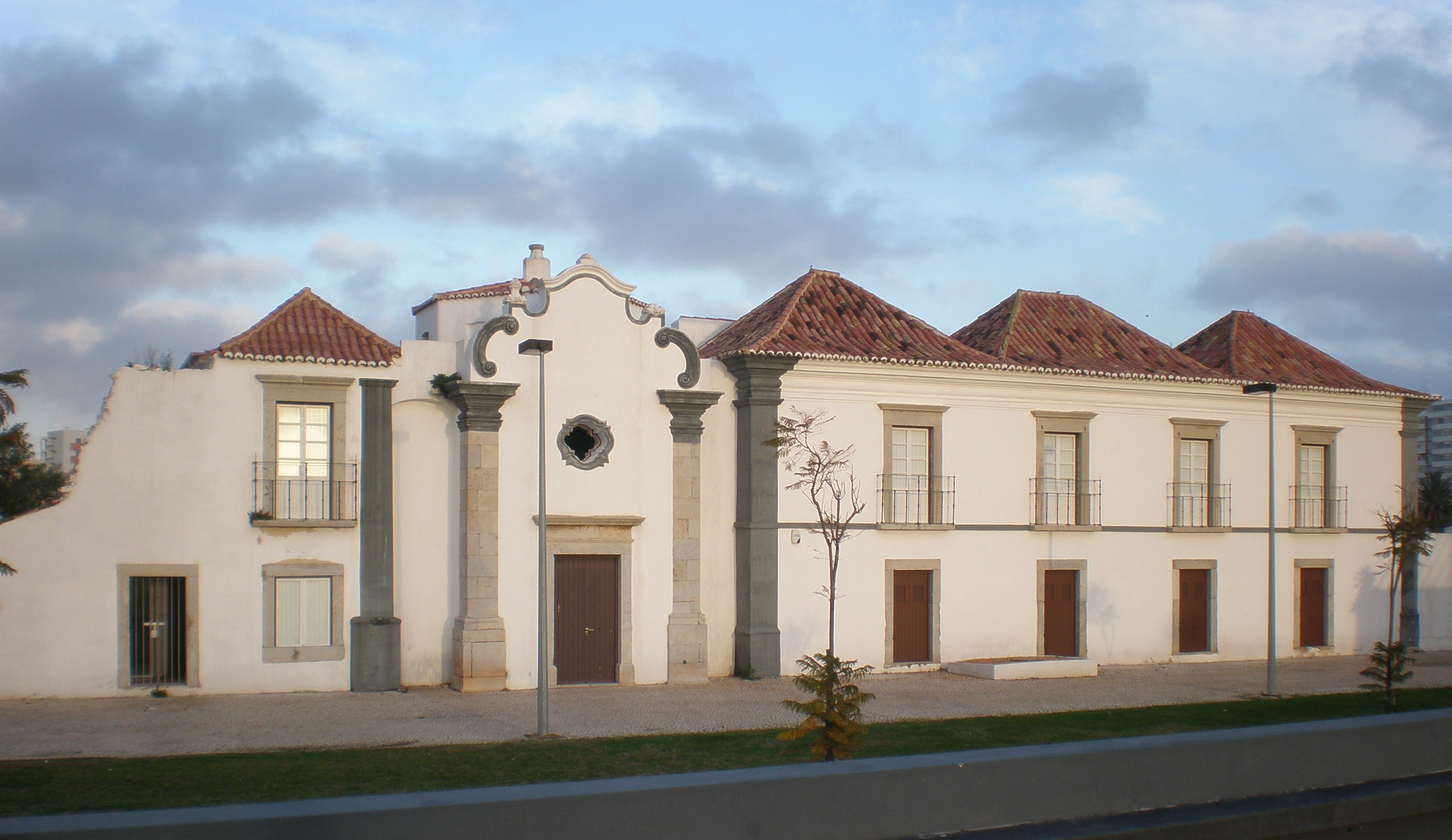 Horta do Ourives, Faro, Portugal